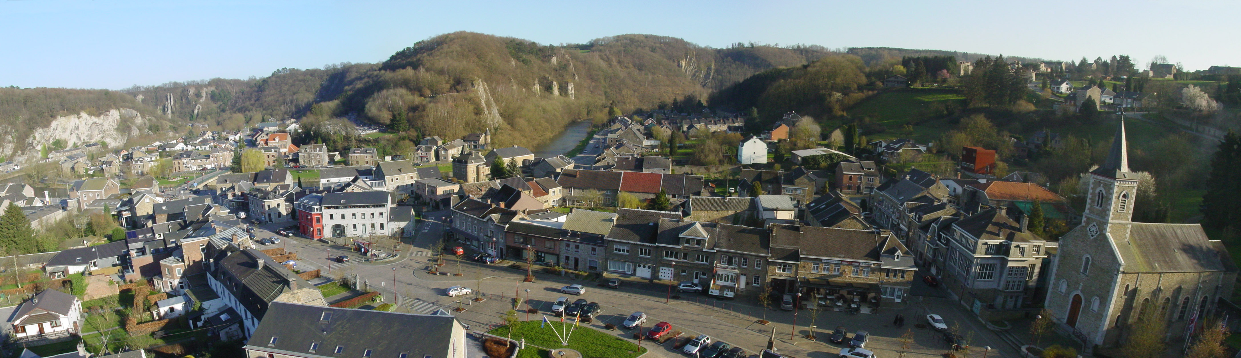 Composite panorama of Comblain-au-Pont from above